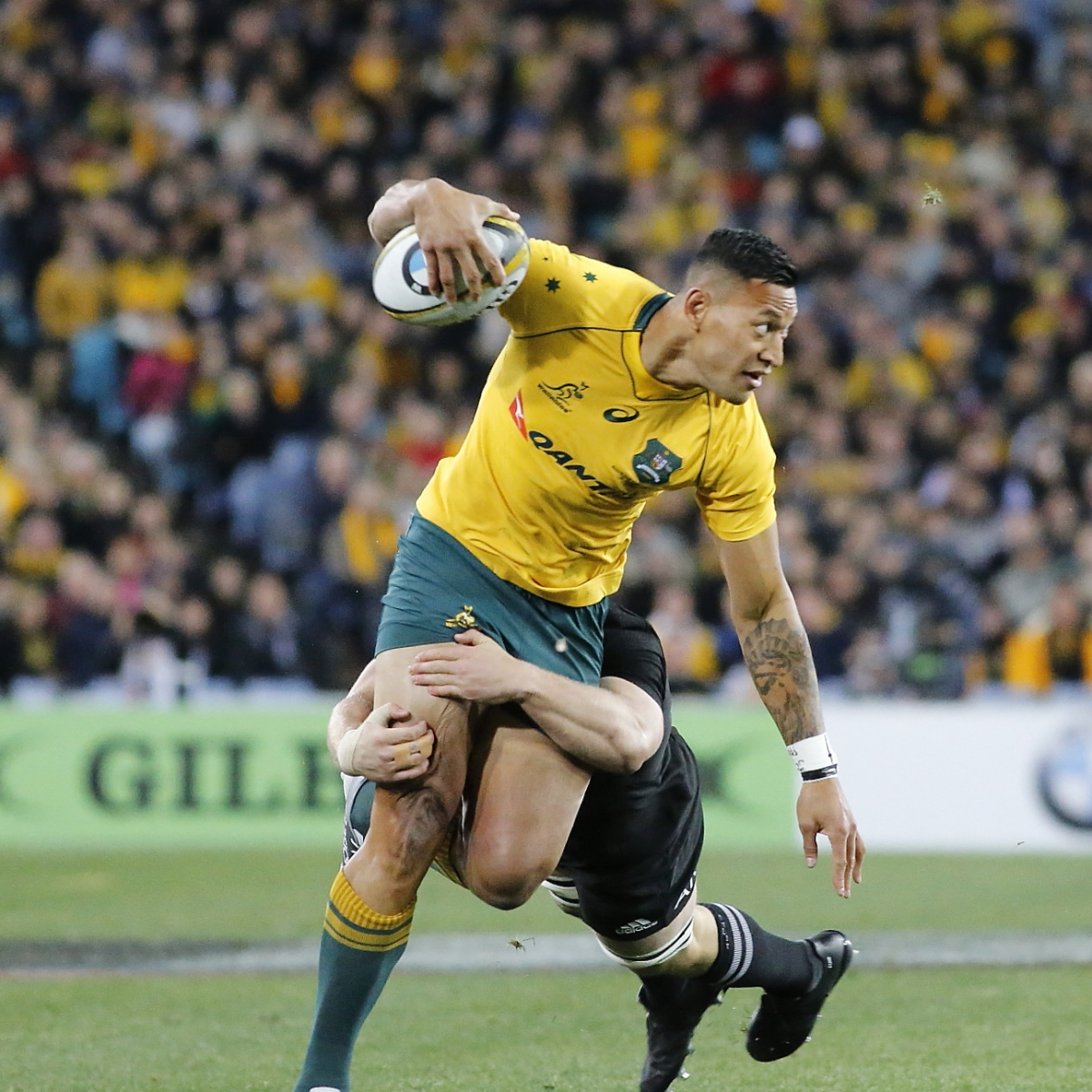 2017.08.19.20.10.58-Folau-0002 2017 Rugby Championship, Bledisloe 1, Australia vs New Zealand, 19th August, ANZ Stadium, Sydney